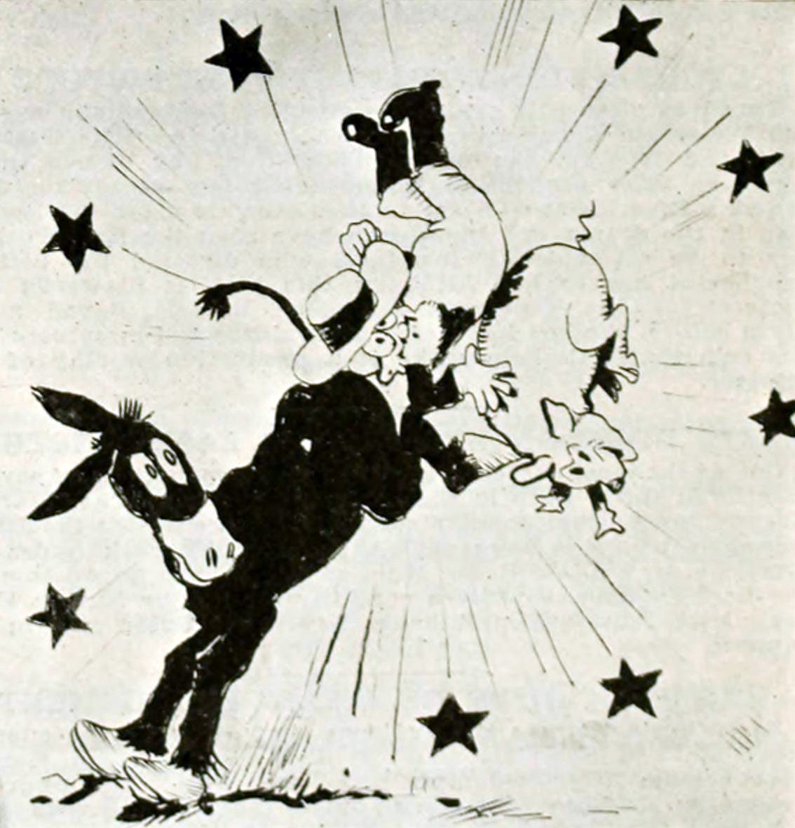 Illustration of a review in The Moving Picture World